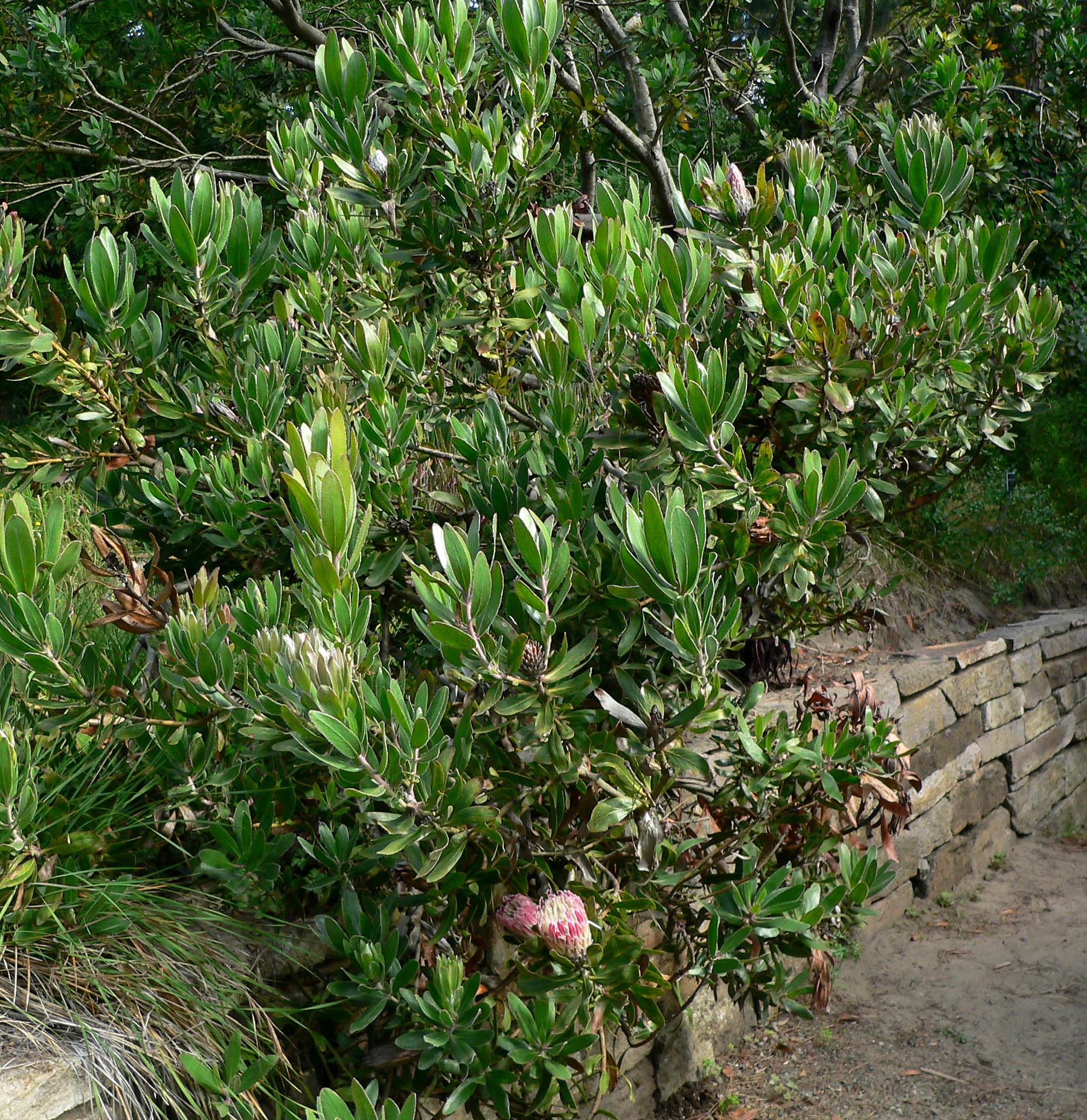 Photo of Protea obtusifolia 'Holiday Red' at the San Francisco Botanical Garden